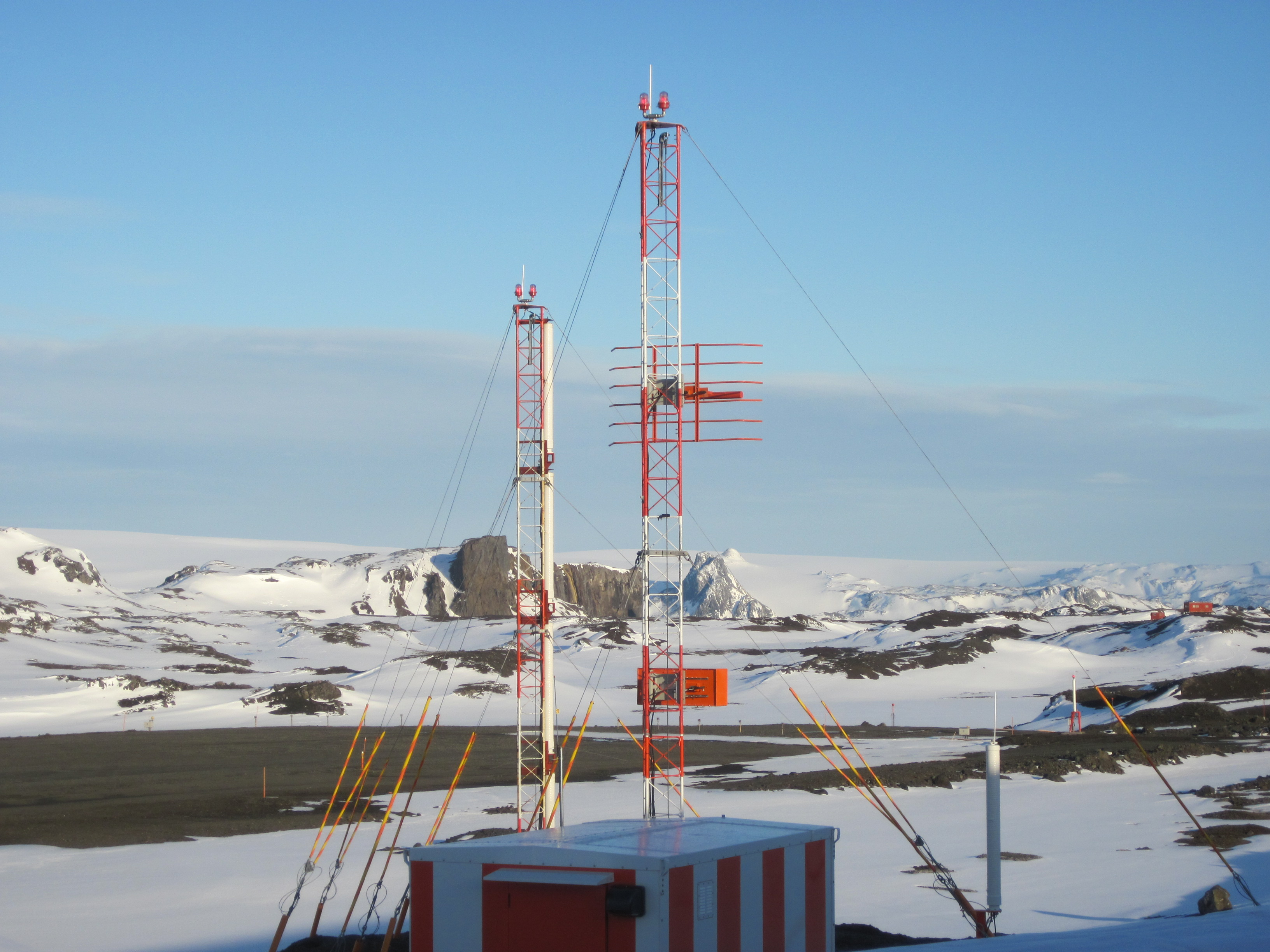 The Transponder Landing System electronics shelter, uplink antenna and elevation sensor are visible